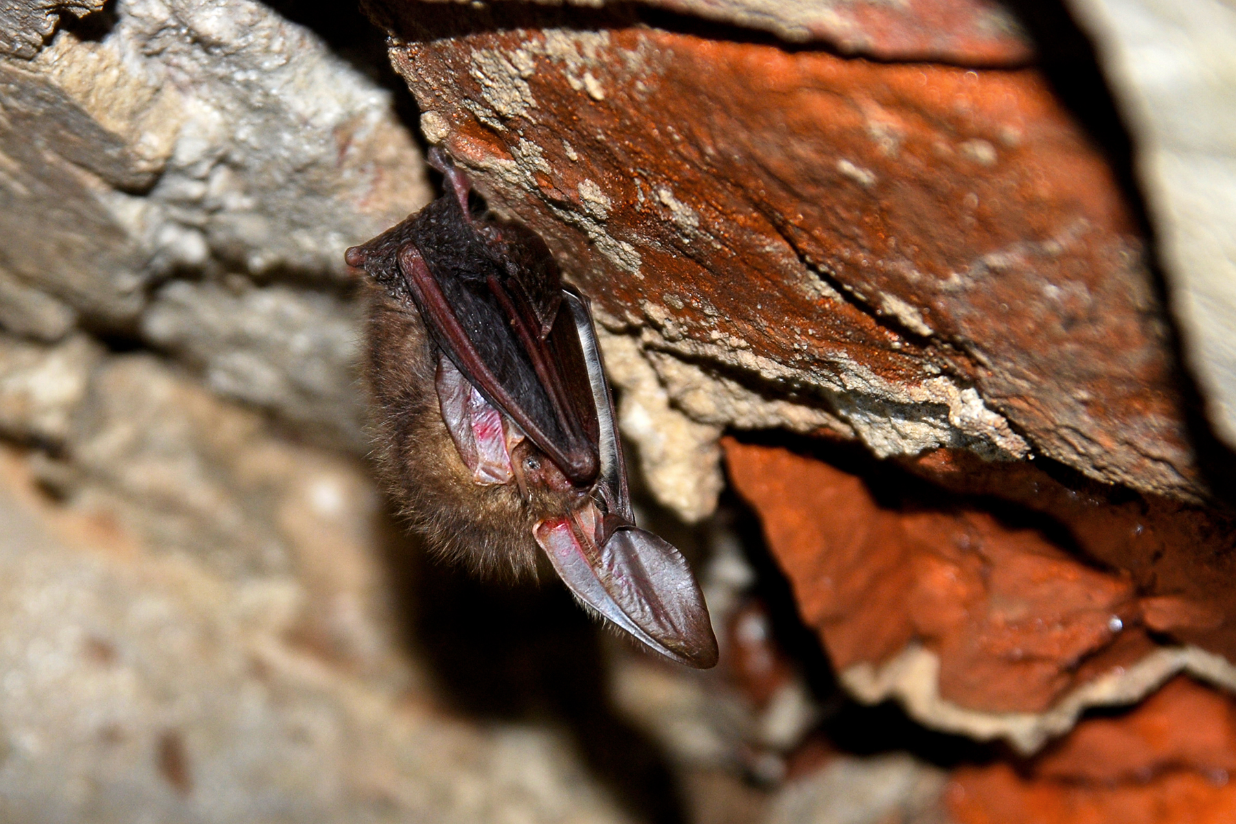 Brown long-eared bat (Plecotus auritus) is common bat species in Europe. While hibernating it hides it´s big ears under the wings, but sometimes on ear is forgotten out. Photo is taken in Estonia.